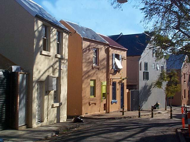 Georgian houses in a quiet street in Surry Hills, Sydney - you can just make out the sleeping dog! Taken by Michael Gardner 2002